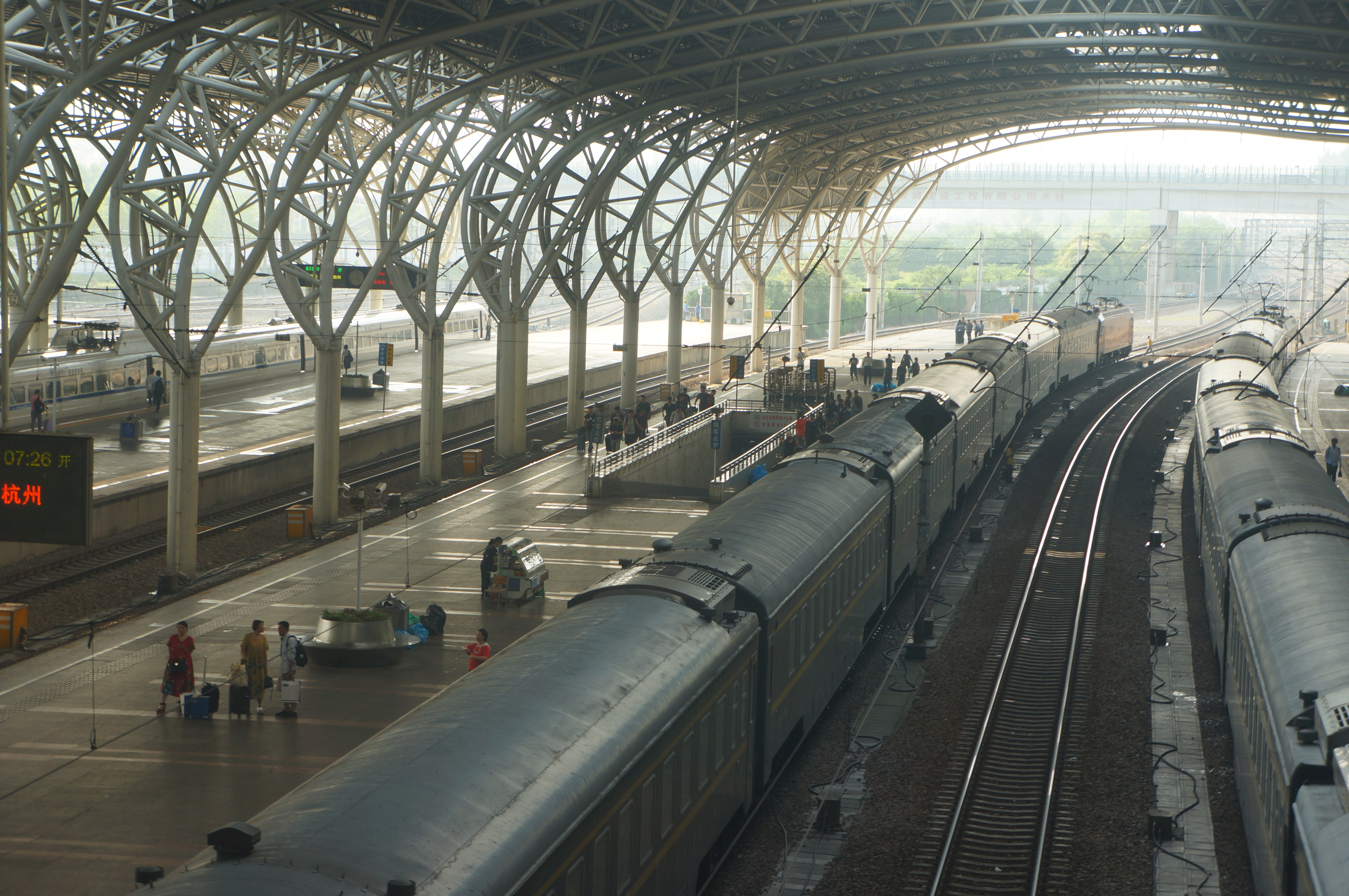 Hauled by HXD3D